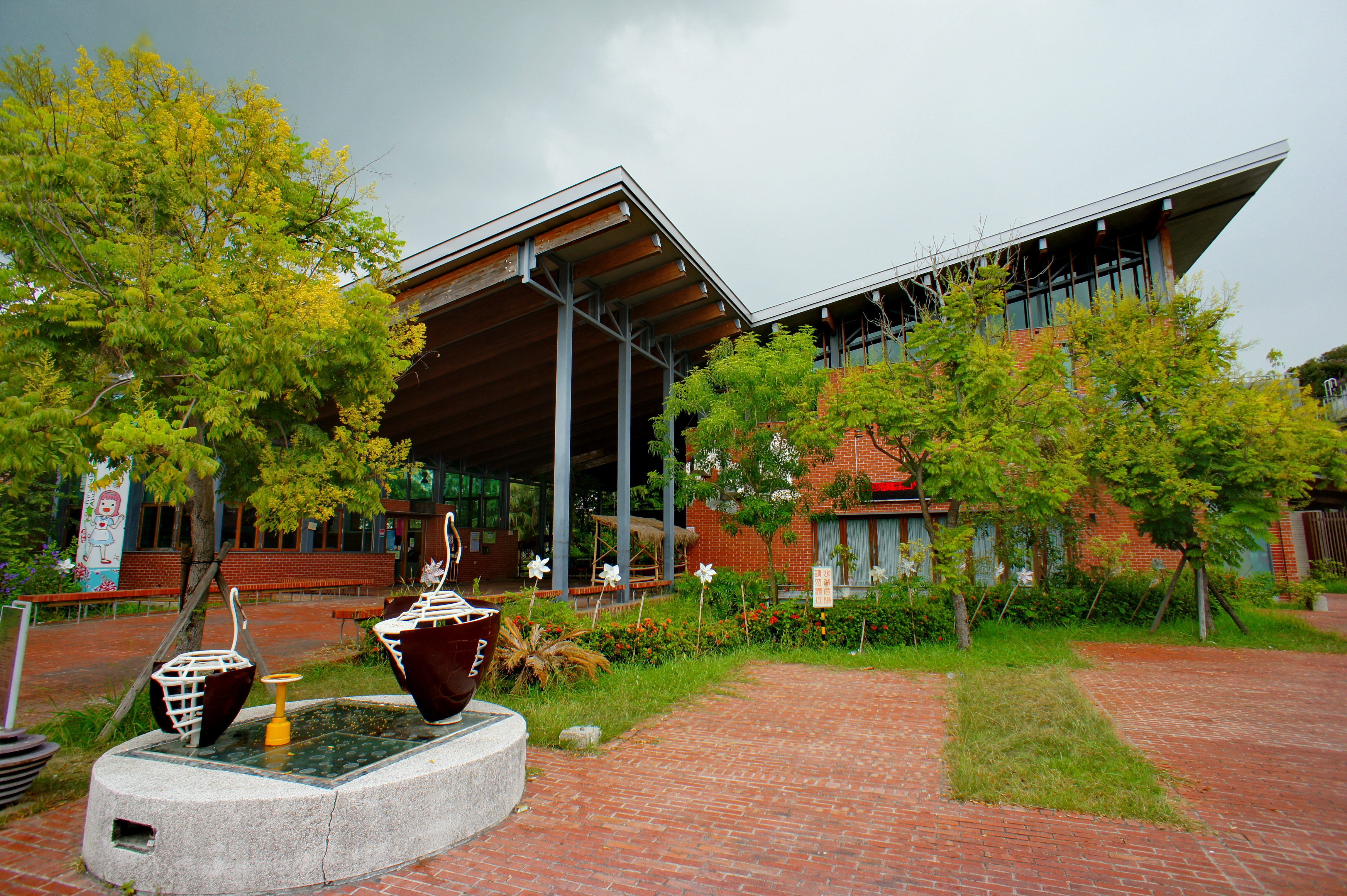 Culture Museum of Sikou Township Office, Chiayi County, Taiwan.